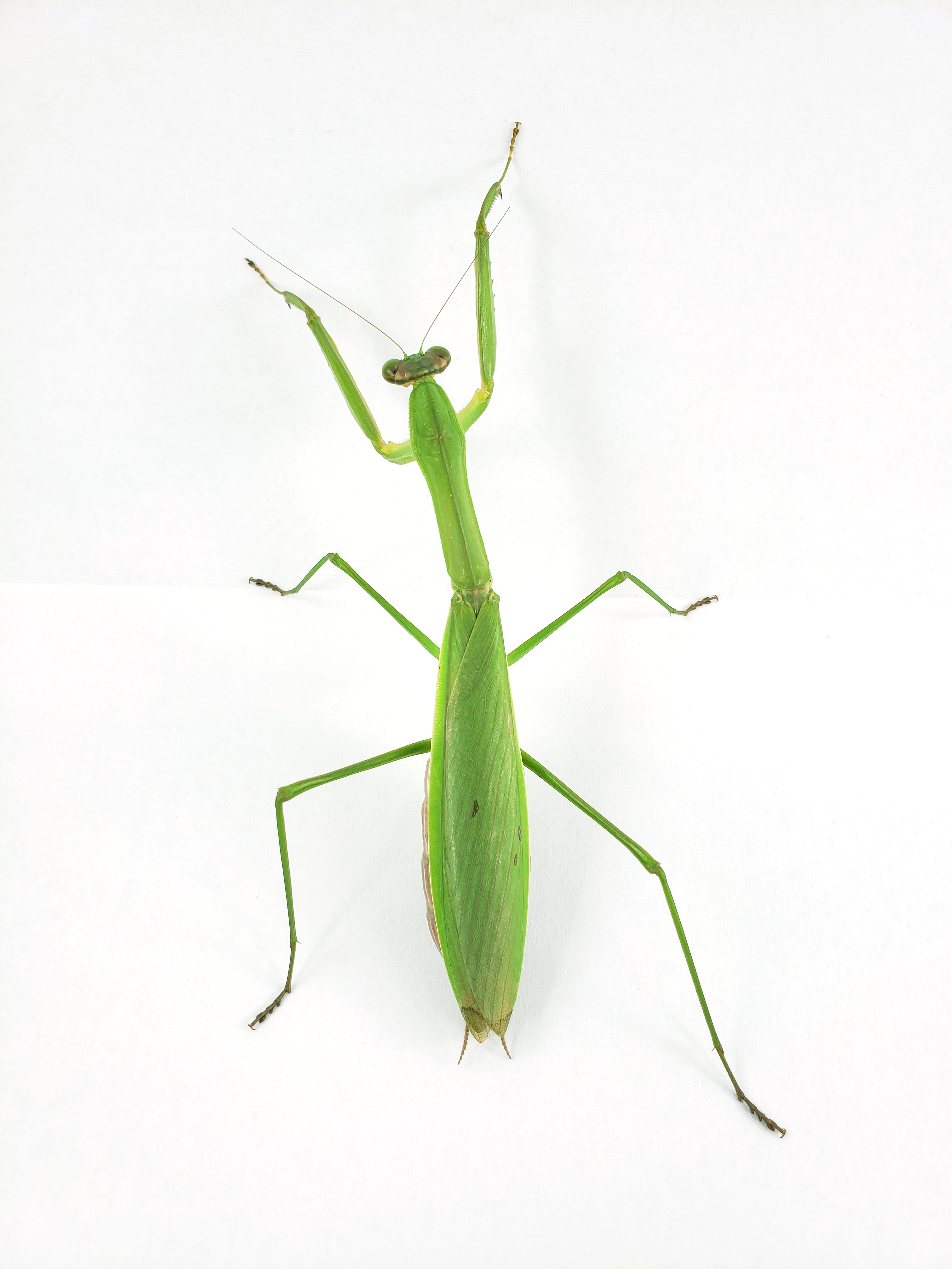 Green pregnant female Chinese mantis (Tenodera sinensis) back